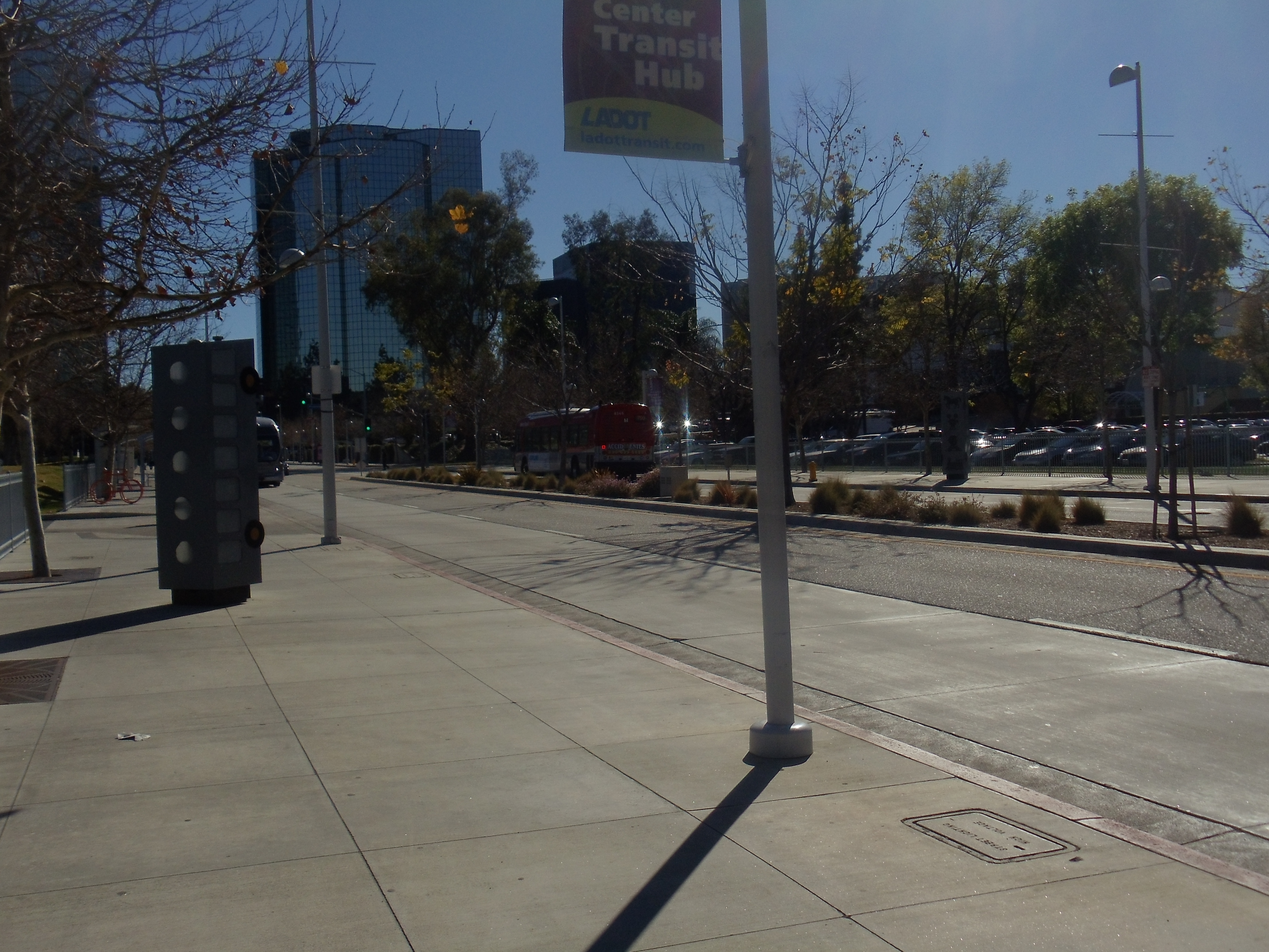 Warner Center transit hub.